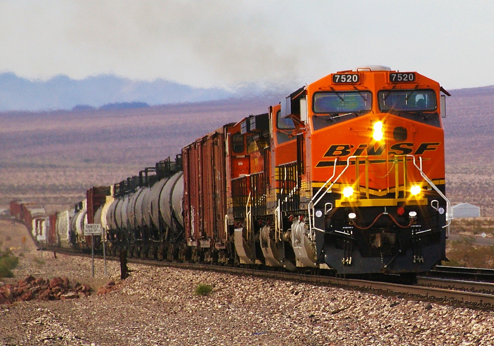 In the middle of the Mojave Desert near Ludlow, CA